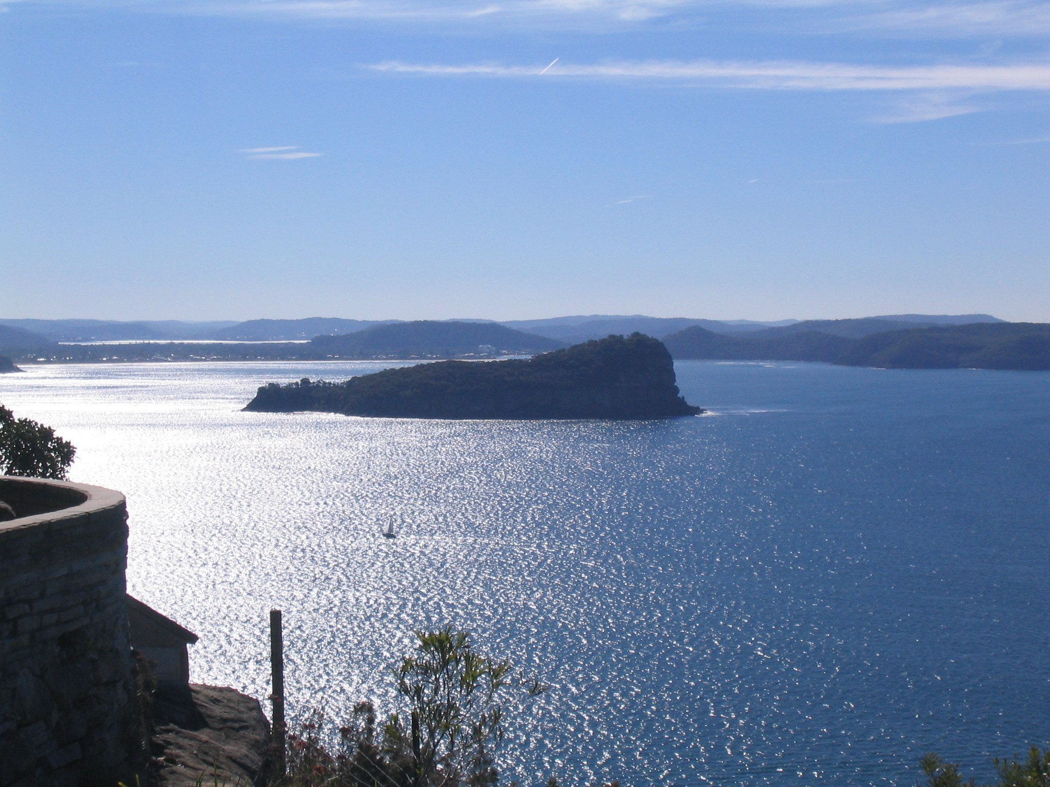 Lion Island, in Broken Bay, New South Wales, Australia. Category:Images of Sydney